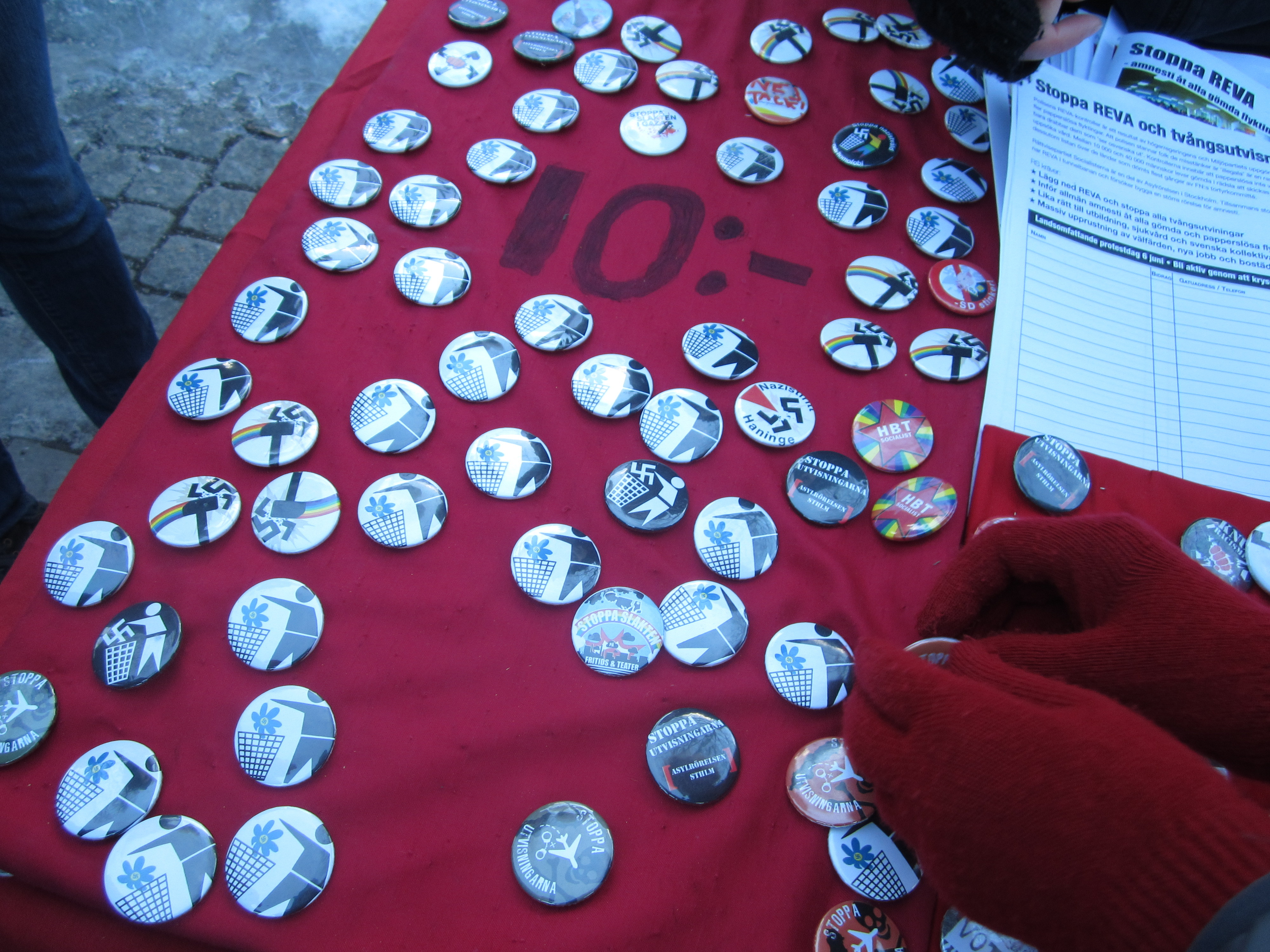 Booktable by Rättvisepartiet Socialisterna. Demonstration against REVA and Sweden's migration policy in Kungsträdgården in Stockholm, organized by Save the Children's youth association, the Red Cross' youth association and Ungdom Mot Rasism ("Youth Against Racism").